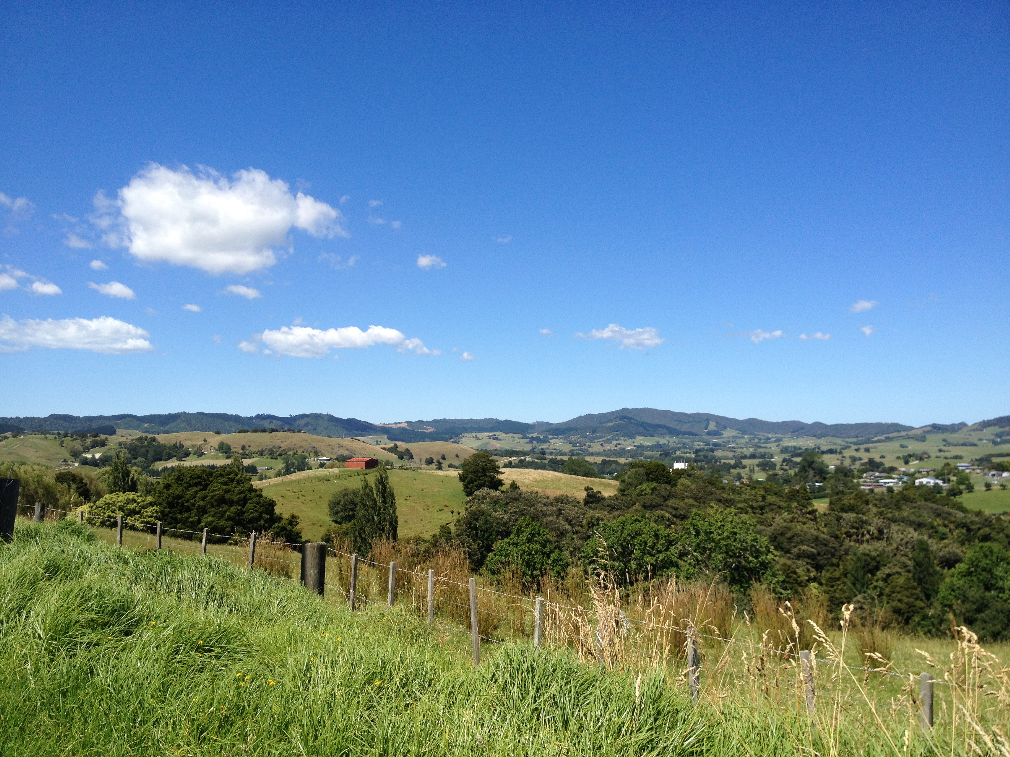 Beautiful views from the Hills of Maungaturoto